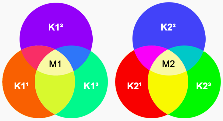 This picture serves as an example for the 3rd Grassmann Law. It demonstrates the formation of two metameric colors (M1 and M2) from different color components (K1 1, K1² and K1³, respectively K2¹, K2² and K2³).